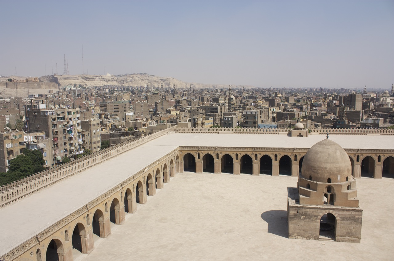 View from Ibn Tulun Mosque.